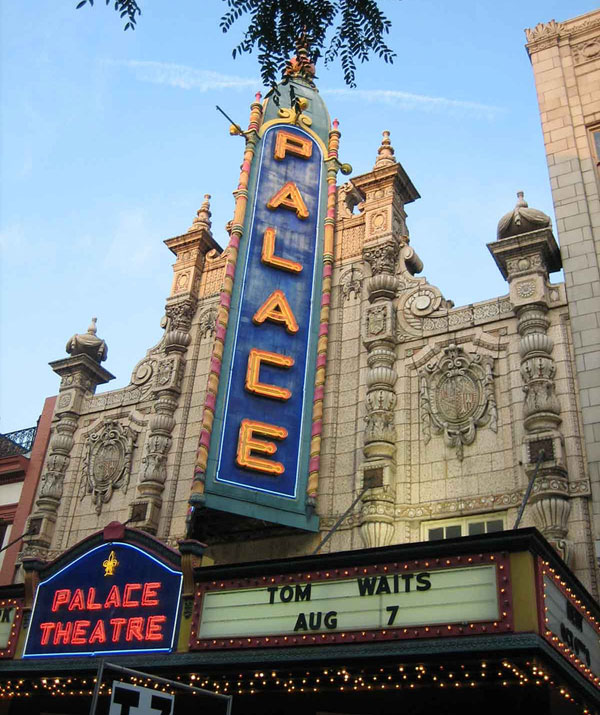 Full sign of the Louisville Palace, by user Innominate on Flickr [1], using a compatible Creative Commons license. I reduced and cropped the image, and I release my changes under the same license.